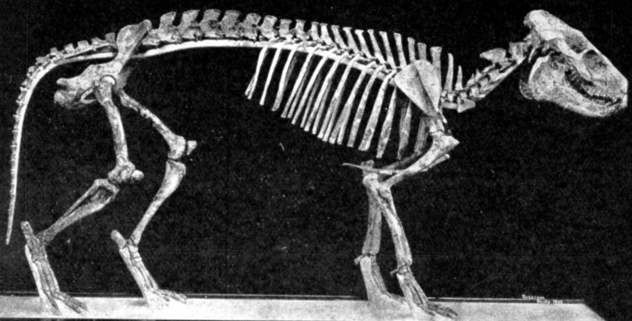 Merycoidodon culbertsoni skeleton.